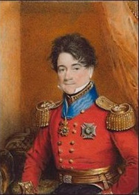 Portrait of General Sir Thomas Hawker, KCH. Described as "Sir Thomas Hawker, seated, wearing staff uniform, his scarlet coat with gold epaulettes, his black collar with gold lace, gold waist-sash, the belt plate with royal cipher VR [sic - Victoria did not become queen until 1837], curtain background , 1821... watercolor on ivory... 12.4 cm"